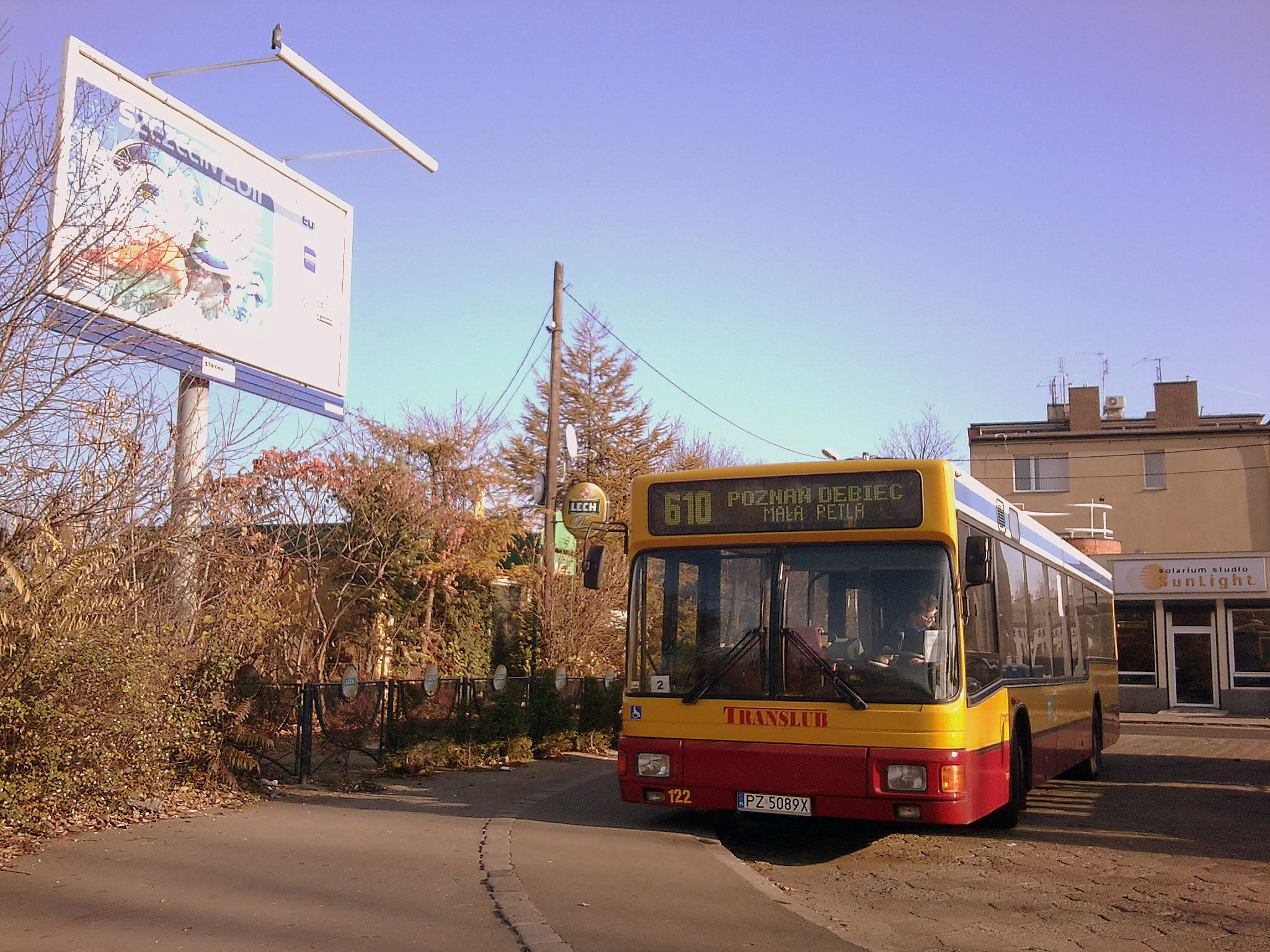 MAN 2x2 bus (#122, reg. PZ 5089X) in Poznań-Dębiec, Poland. Translub Luboń operator.